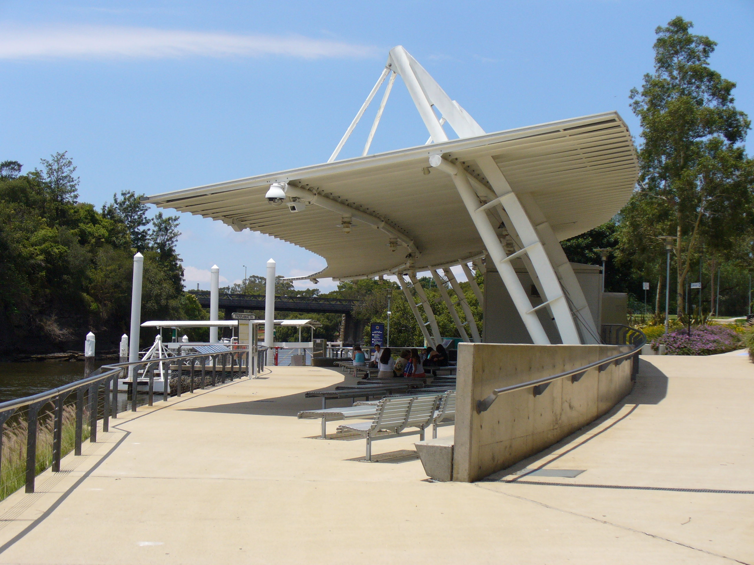 Parramatta (Charles St) Ferry Wharf, Sydney